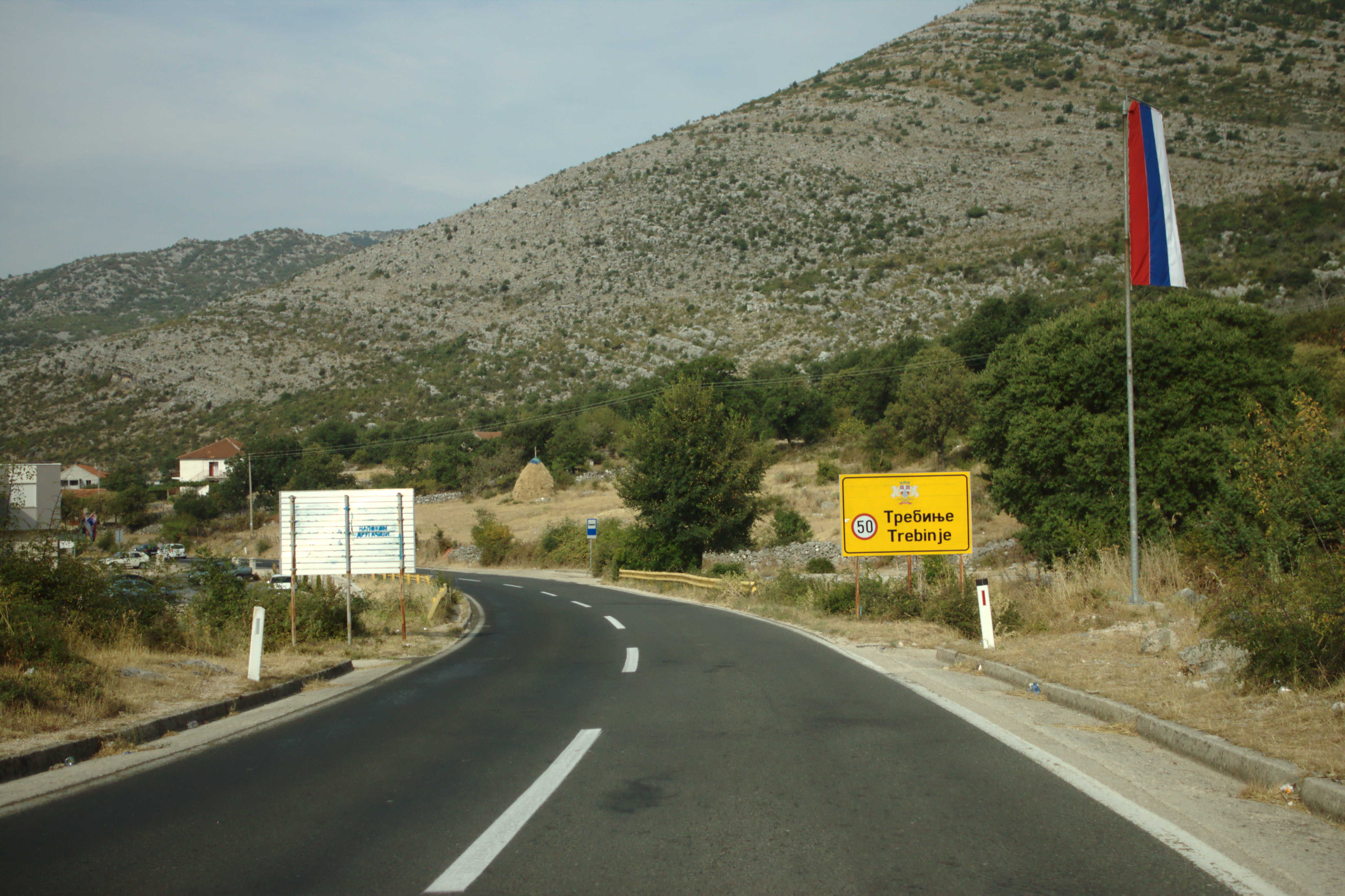 Arriving in the town of Trebinje (southern Bosnia and Herzegovina), from Gacko